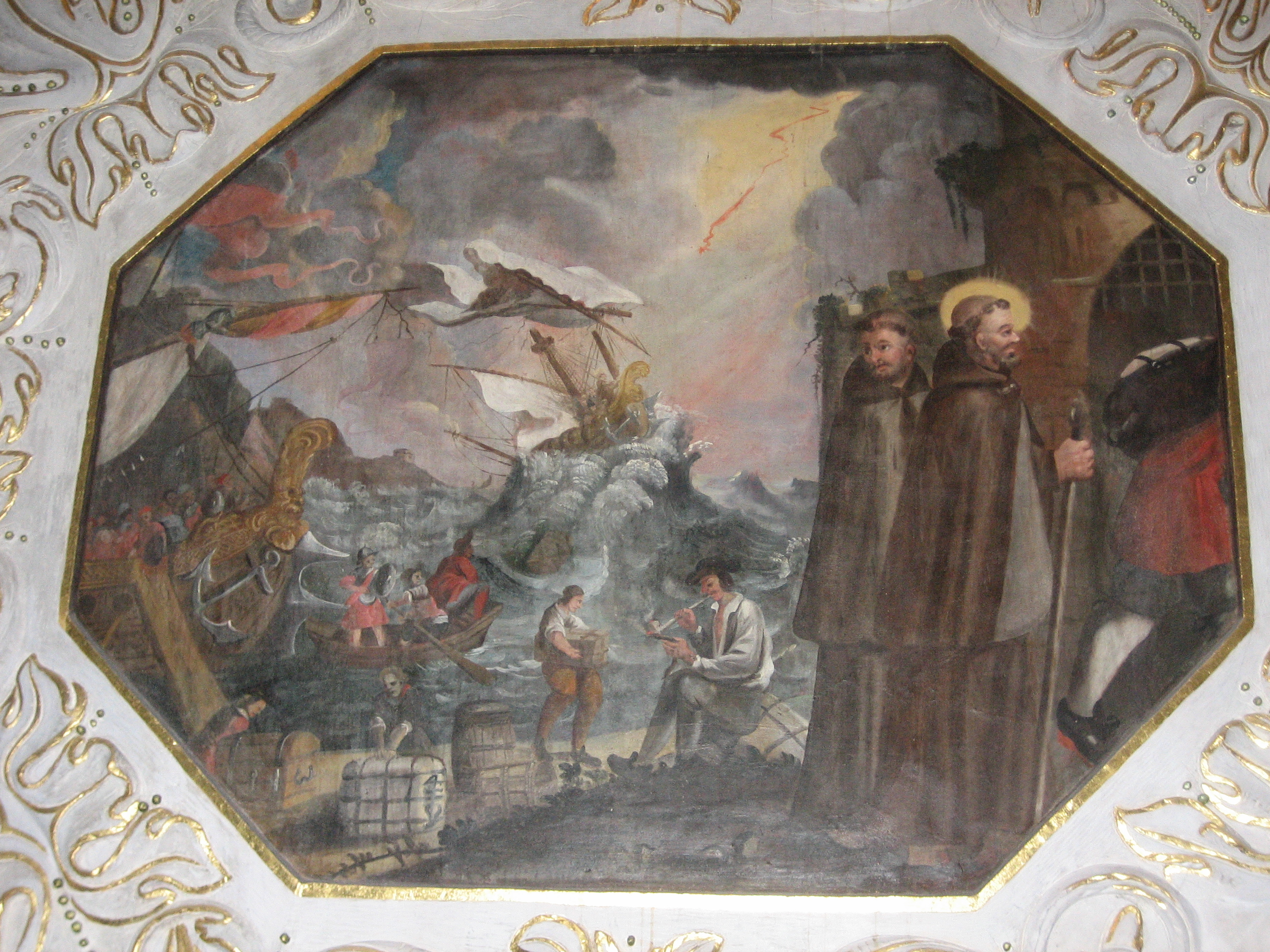 St. Francis Monastery of the franciscans in Zagreb, Croatia. Baroque chapel of St. Francis. Wall painting: St. Francis at the shores of Croatia.